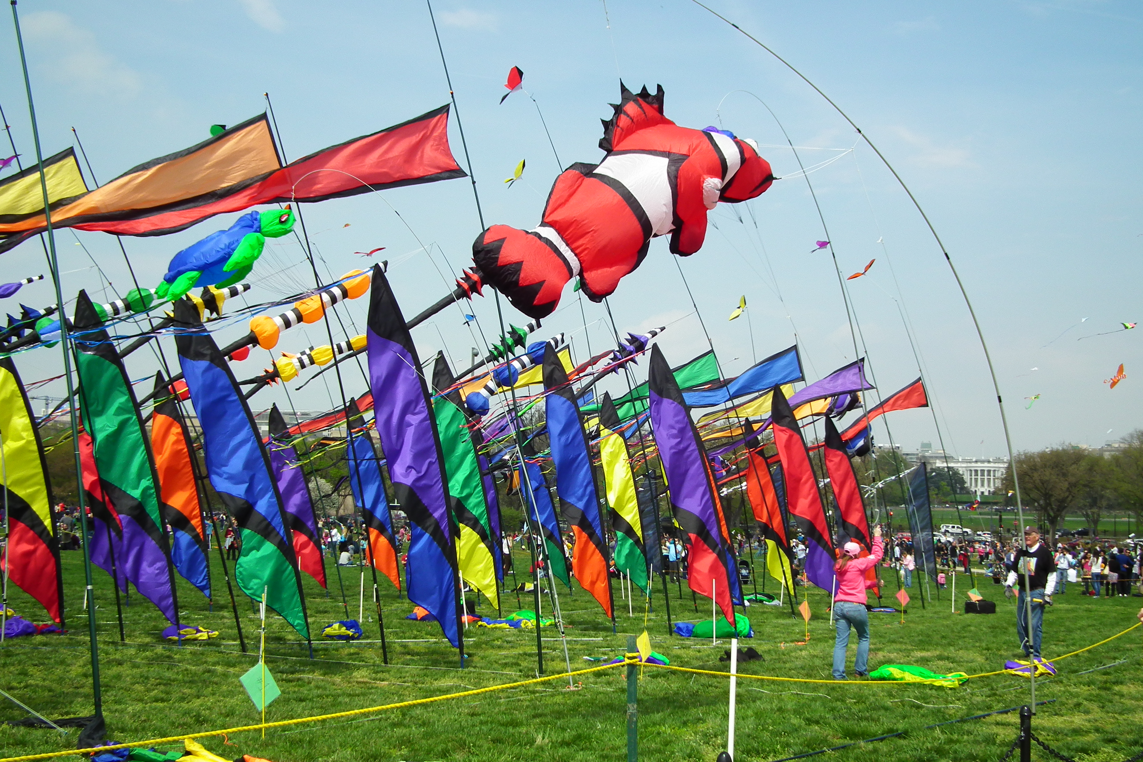 This photo has been taken the 31st March 2012 during the Blossom Kite Festival previously known as Smithsonian Kite Festival on Washington Monument D.C. in the U.S.A.